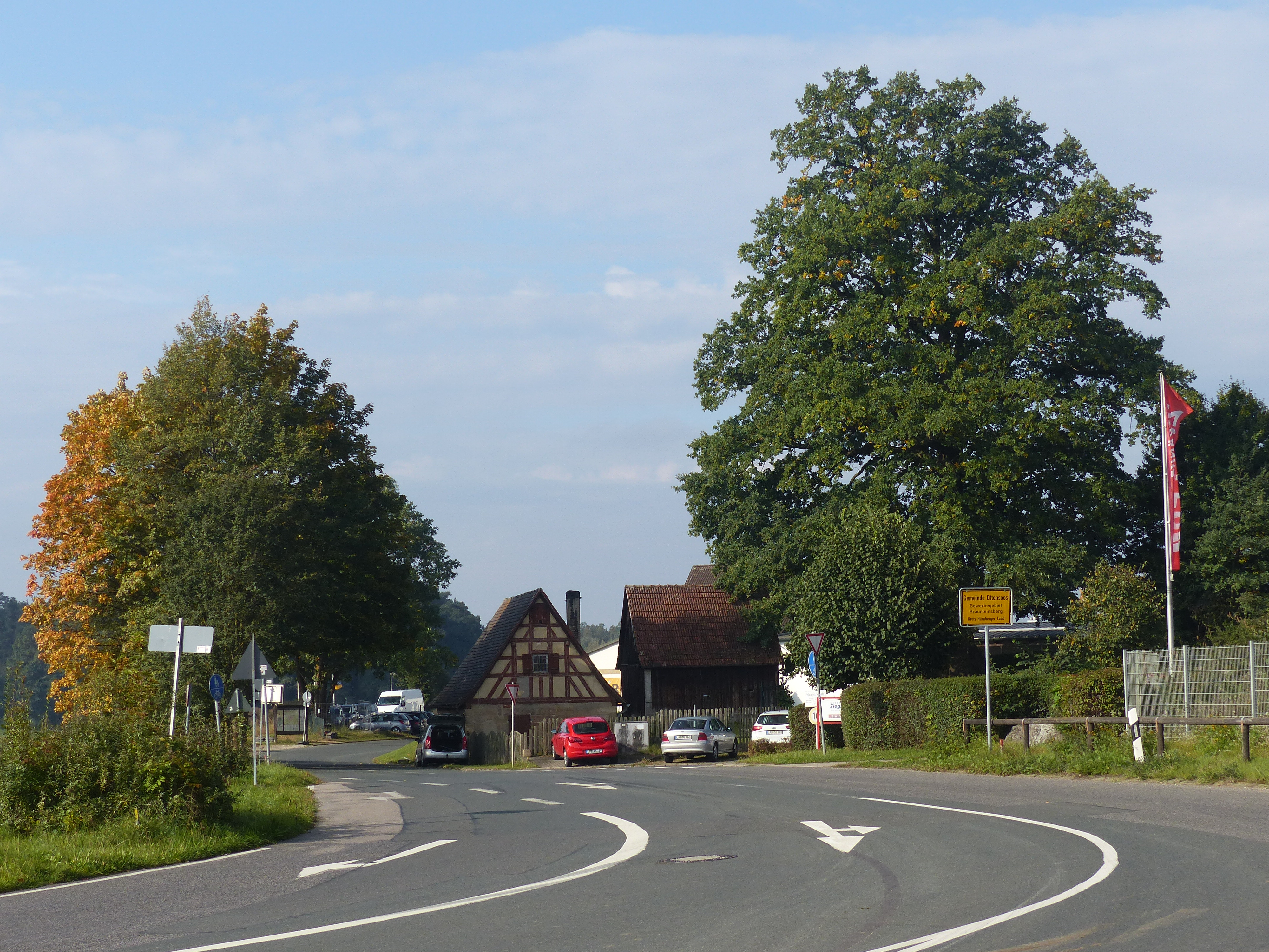 The business park Bräunleinsberg, part of the municipality of Ottensoos